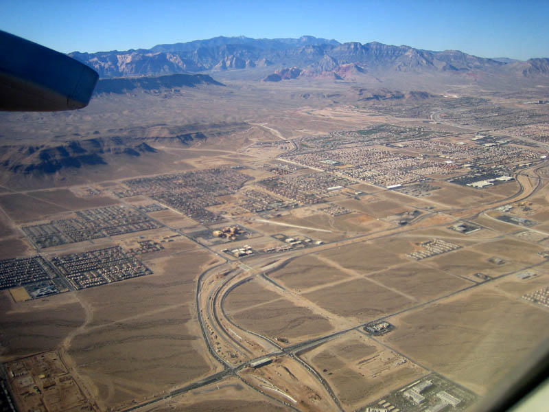 Aerial photo taken from a plane of the southwest curve of the Las Vegas Beltway.